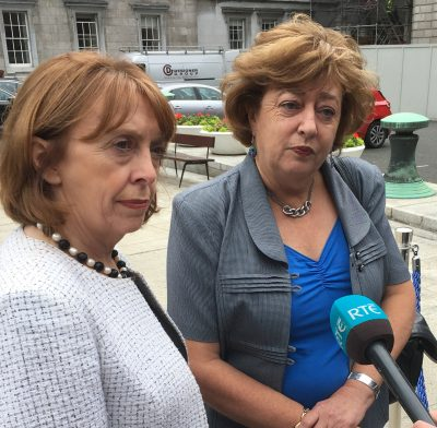 Social Democrats Co-Leaders Róisín Shortall TD and Catherine Murphy TD